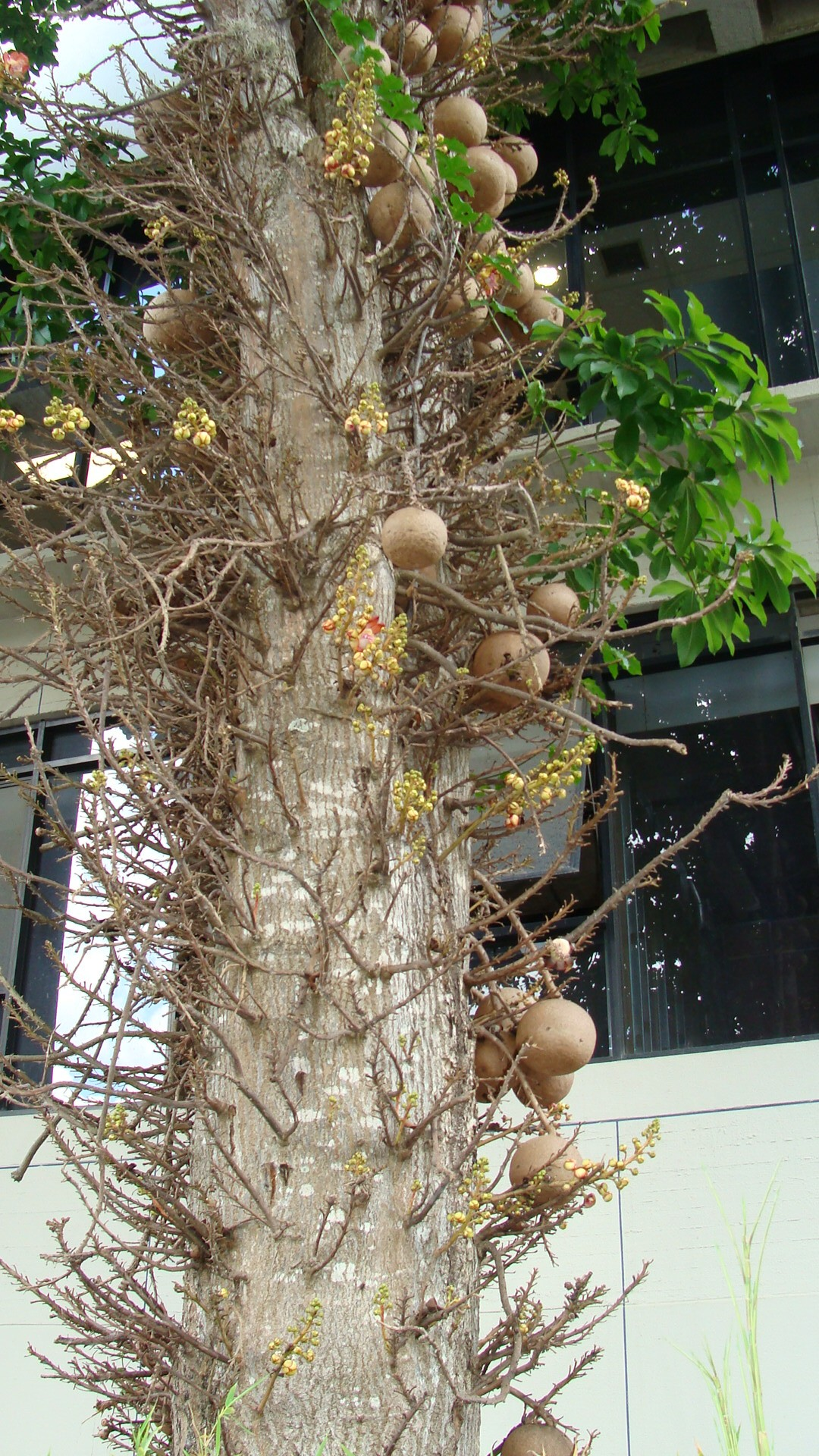 Cannonball tree and fruits